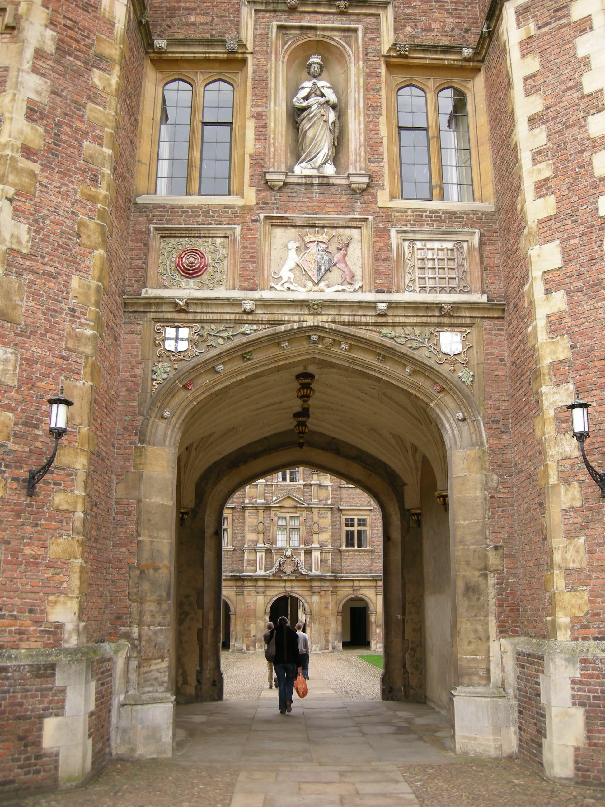 Shrewsbury Tower, St John's College, Cambridge, Second Court. Within a round-headed niche a statue of Mary Cavendish (1556–1632) the wife of Gilbert Talbot, 7th Earl of Shrewsbury, sculpted by Thomas Burman in 1671 at the cost of her nephew William Cavendish, Duke of Newcastle, and brought from London. "Second Court was begun in 1598 under Dr. Richard Clayton, Master (1595–1612); the contractors were Ralph Symons of Westminster and Gilbert Wigge of Cambridge, freemasons, and the contract, with plans and elevations, is preserved in the College Library. The cost was partly borne by Mary (Cavendish) wife of Gilbert Talbot, 7th Earl of Shrewsbury. The work was finished in 1602 and the paths paved in 1603. The W. range contains the Gatehouse now called the Shrewsbury Tower".('St. John's College', in An Inventory of the Historical Monuments in the City of Cambridge (London, 1959), pp. 187-202 [1]) Arms of Talbot impaling Cavendish below. A white marble copy of this statue depicts Lady Rachel Fane (Countess of Bath) (1613-1680) in Tawstock Church, Devon.